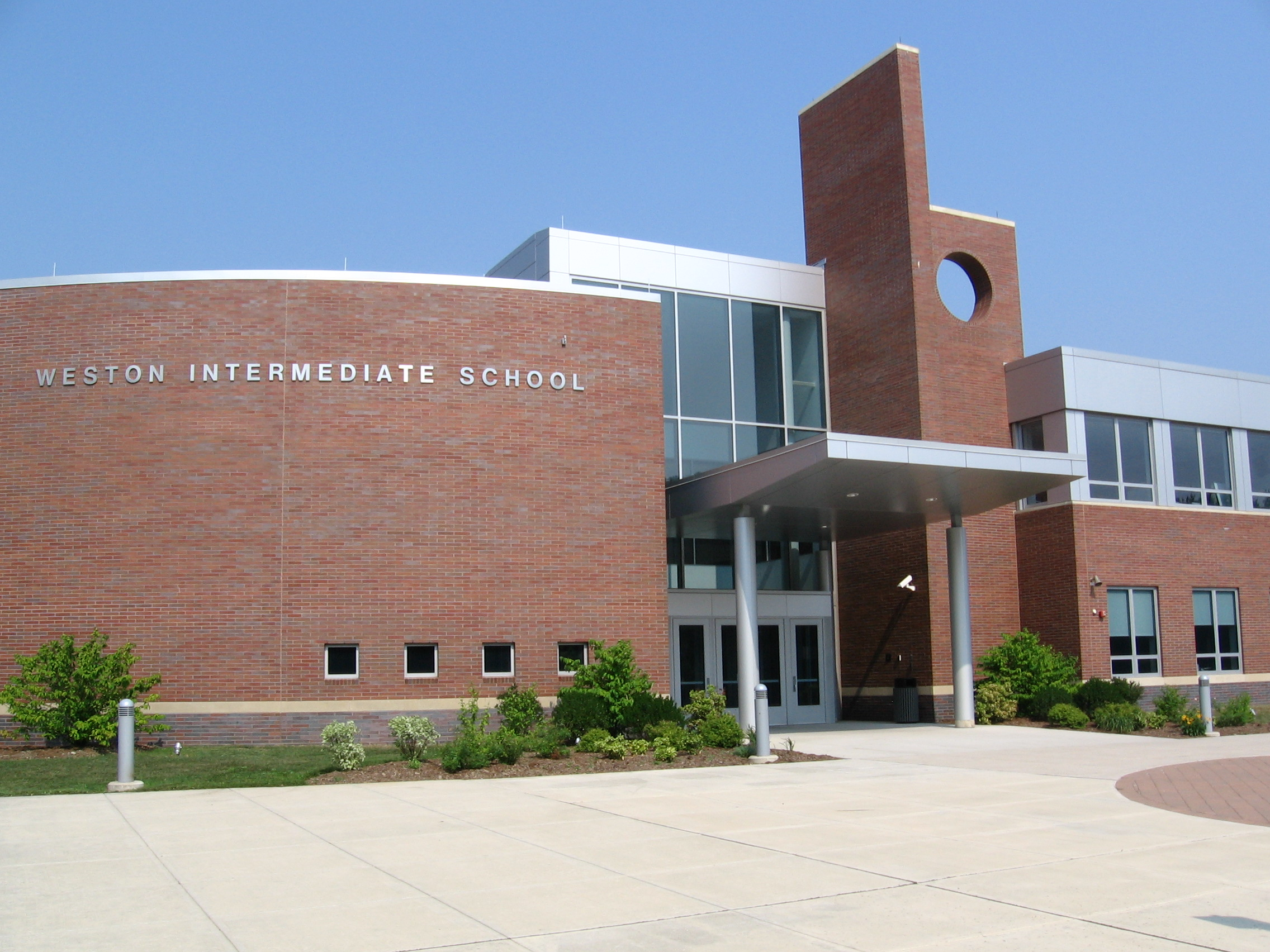 Weston Intermediate School, a public school on School Road, Weston, Connecticut